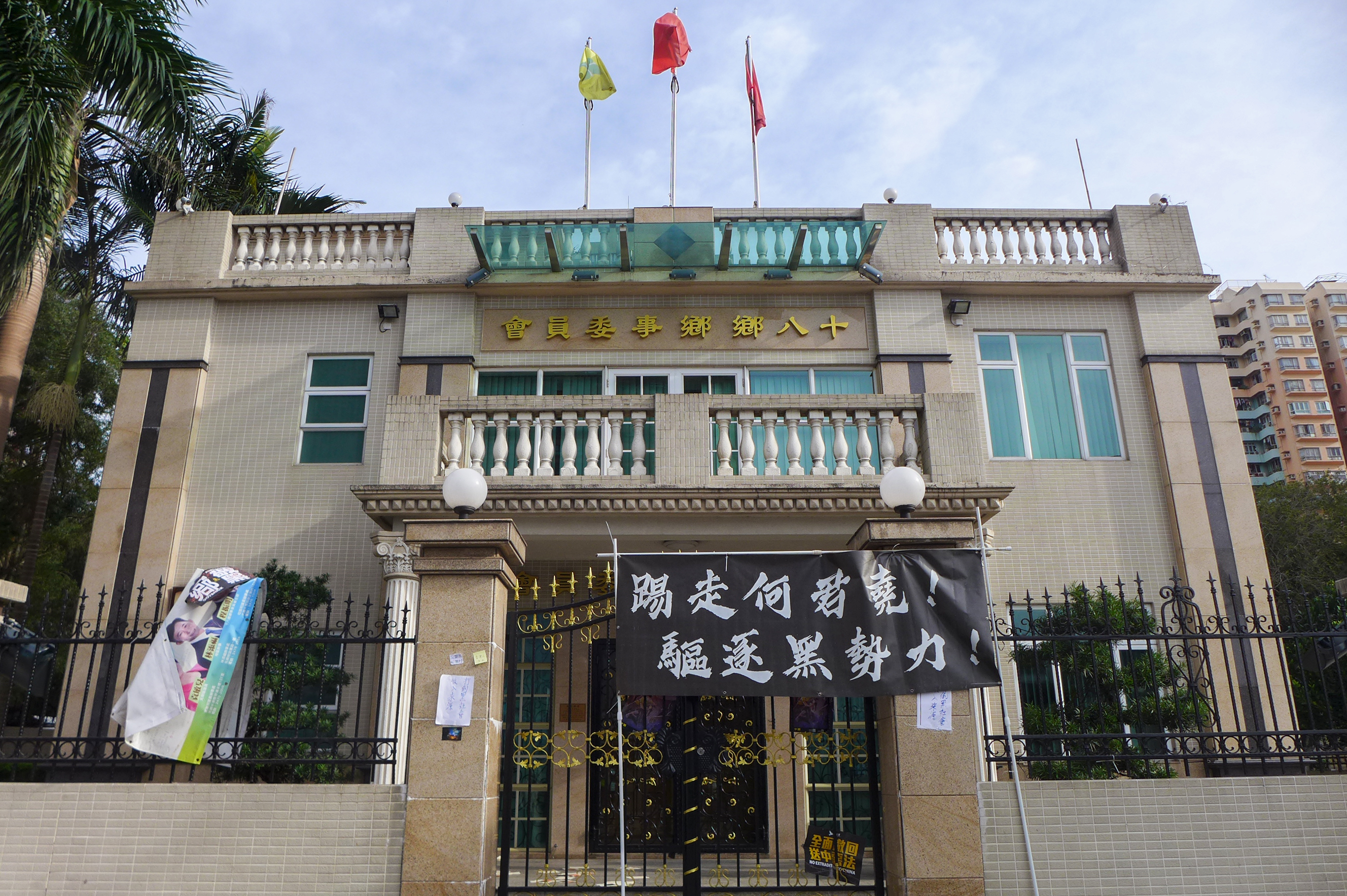 Shap Pat Heung Rural Comittee Building